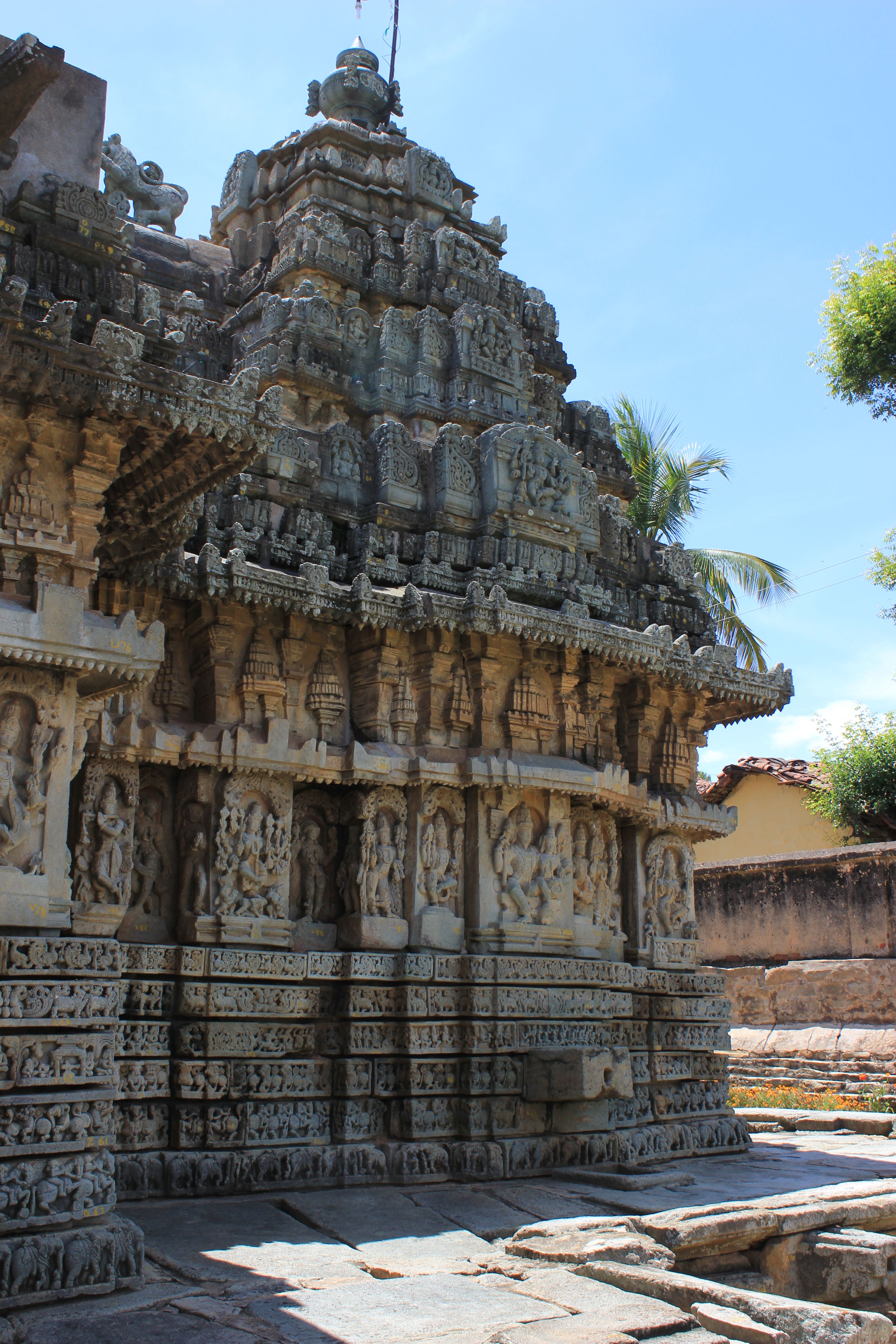 The Mallikarjuna temple is located in Basaralu, Mandya district, Karnataka state, India. The temple was built around 1234 A.D. during the rule of the Hoysala Empire King Vira Narasimha II